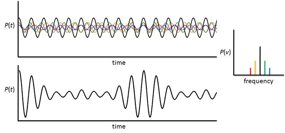 Addition of components of a broadened wave in time domain. Also shows frequency domain equivalent